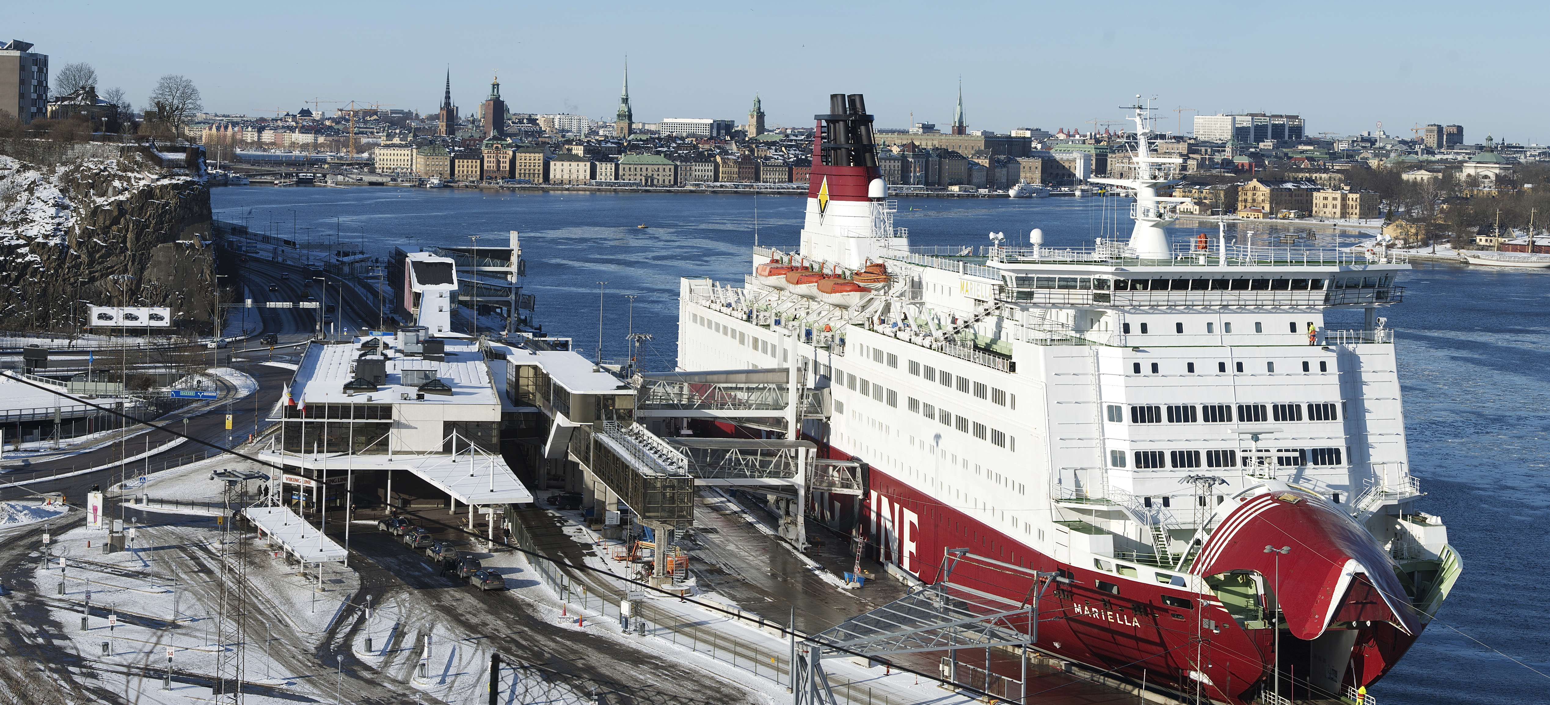 Viking Line terminal, in Stockholm and M/S Mariella. This image was created with Hugin.